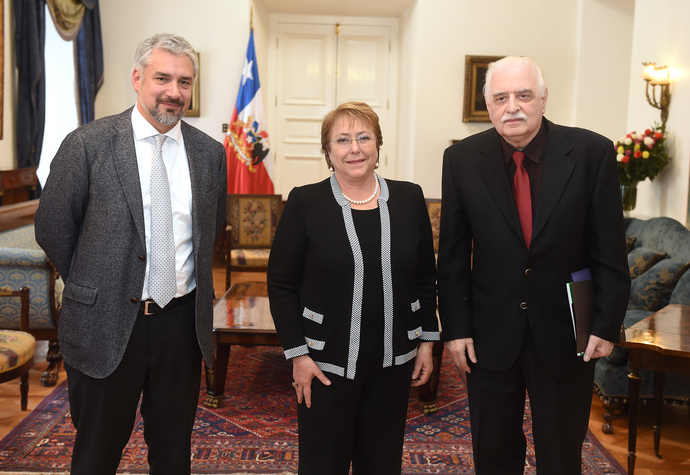 From left to right: Ernesto Ottone Ramírez, Michelle Bachelet, Augusto de Campos